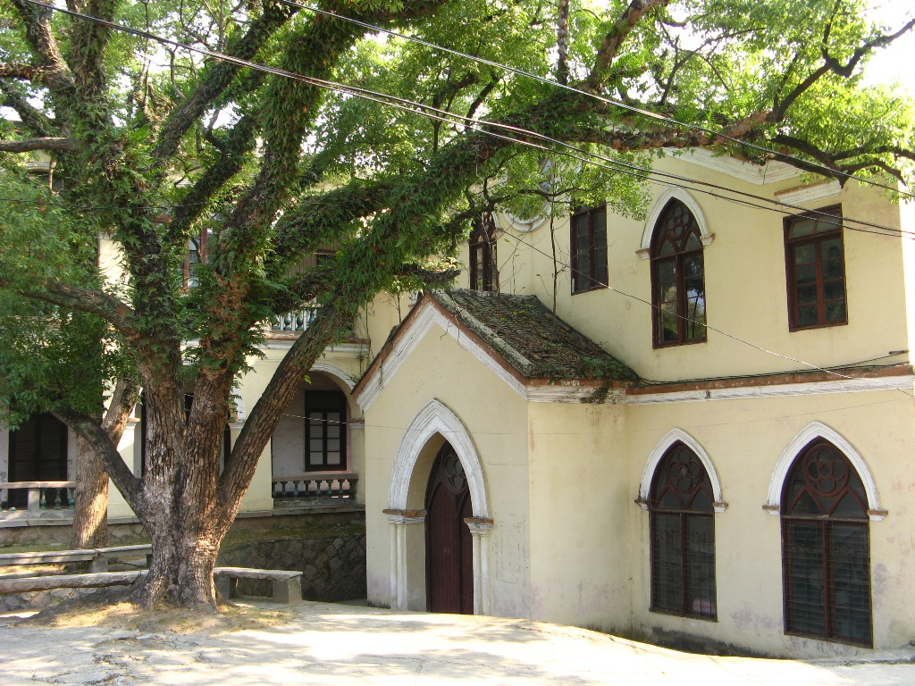 Do-seuk Girls' School, Foochow